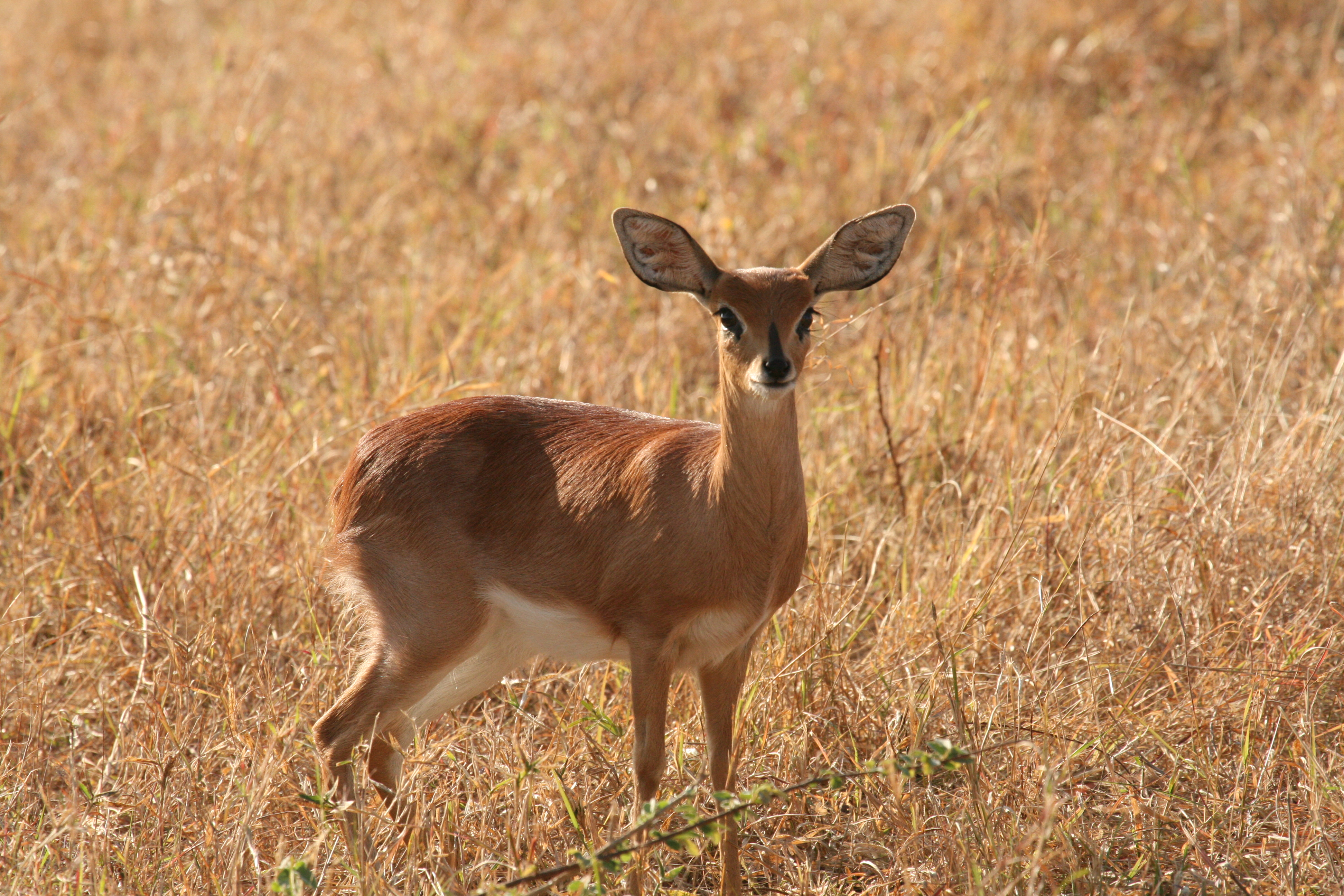 Female steenbok, Raphicerus campestris, South Africa 2011. Photo by Lee R. Berger